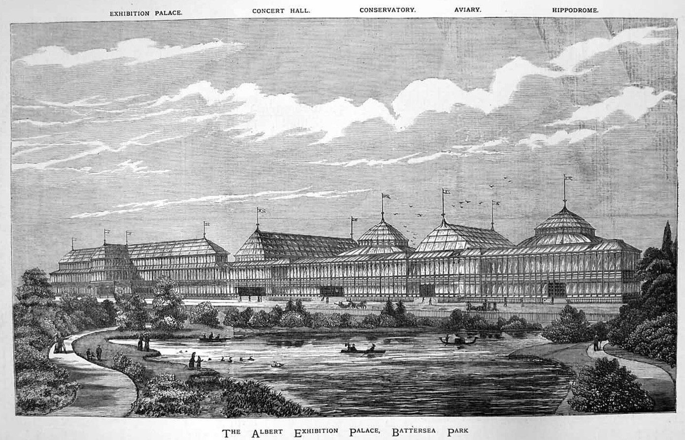 The Albert Exhibition Palace in Battersea Park, depicted in 1884.